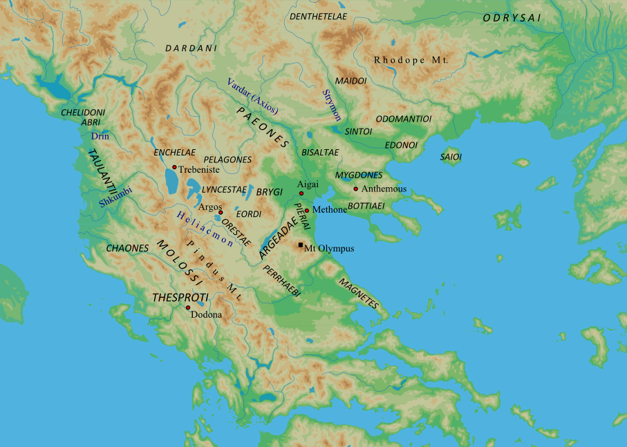 Created by Slovenski Volk Some of the tribal ethnes prior to the expansion of Macedon, according to N G Hammond Principal source: The Cambridge Ancient History, Vol 3 part 3. Map 15 (N G Hammond) Supplementary information on Thracian tribes from Space, Heirarchy & Community in Archaic & Classical Macedonia, Thessaly & Thrace; Fig 12.3. Z H Archibald Map template from Image:Map greek sanctuaries-fr.svg. Slovenski Volk (talk) 23:03, 16 March 2011 (UTC)